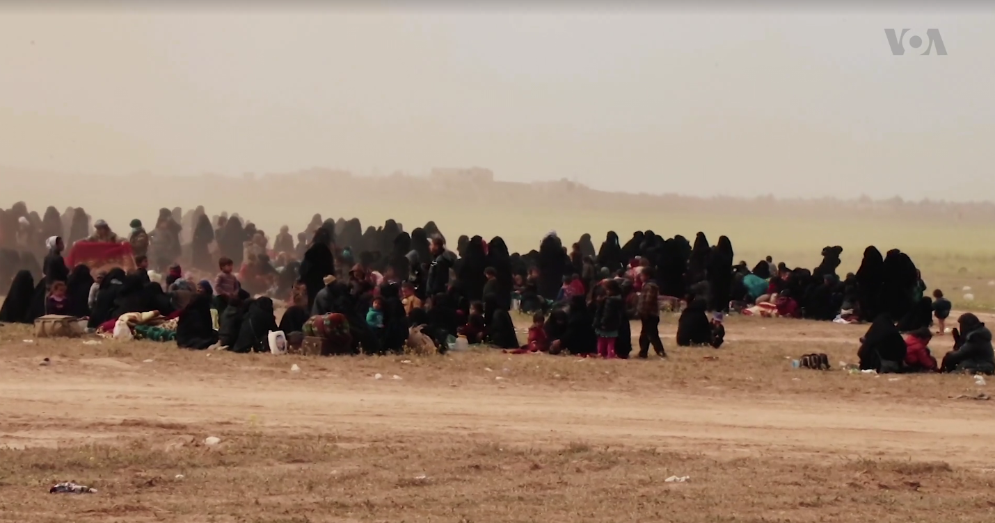 Thousands of civilians have evacuated from Baghuz, Syria, in the past two days as U.S.-backed Syrian Democratic Forces (SDF) are trying to recapture the last stronghold of Islamic State (IS) in eastern Syria.